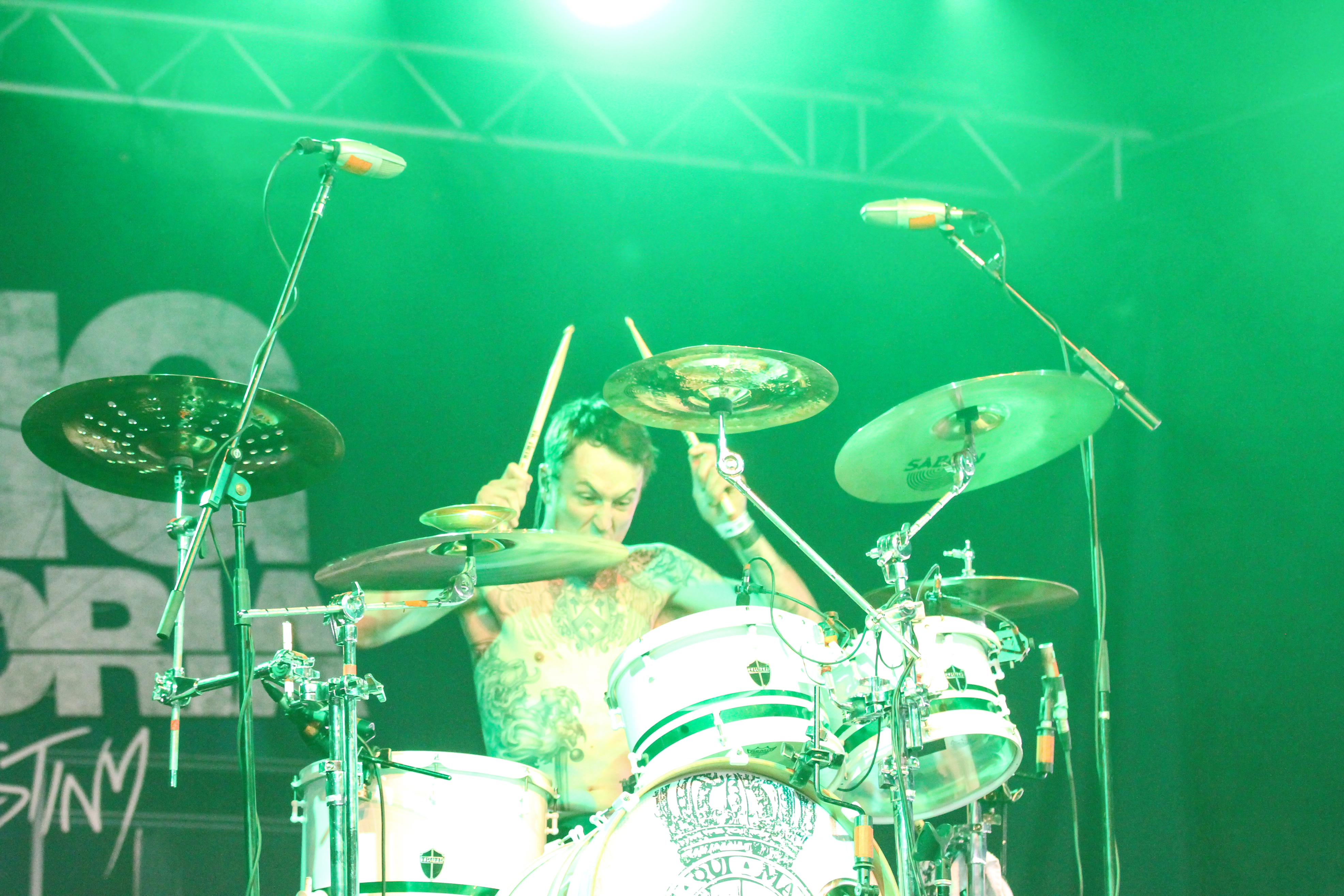 Festivalsommer This photo was created with the support of donations to Wikimedia Deutschland in the context of the CPB project "Festival Summer".